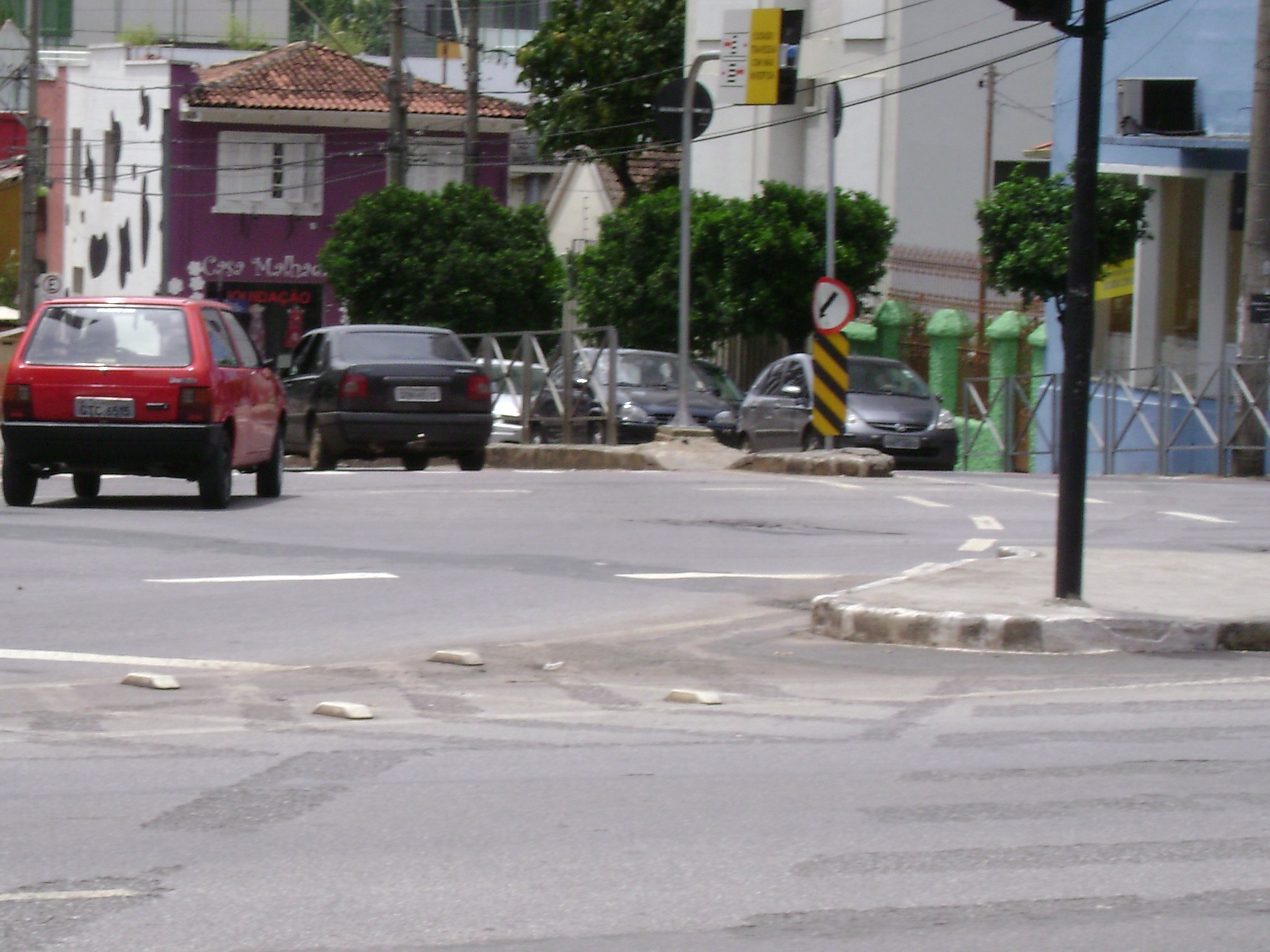 Professor Morais Street